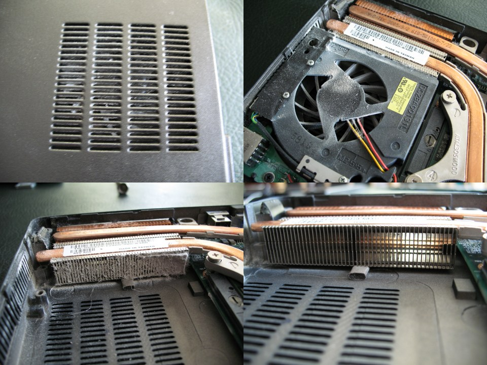 Example of how laptop performance slowly declines due to airborne dust slowly collecting on internal heatsinks, reducing performance and increasing noise from high speed fan operation. Eventually the heatsink covers completely, stopping all cooling airflow no matter how fast the fan spins, and the laptop begins to overheat from even just minor load.As shown in the top-left image, the external appearance of air intake vents provides no indication whatsoever of the internal clogging, and simply blowing air backwards through the exposed heatsink vents is not enough to remove this buildup. Instead the laptop must be disassembled and the dust and lint removed with a ESD-safe vacuum cleaner.This photo montage was created from a 2.5 year old Dell XPS M170 laptop.